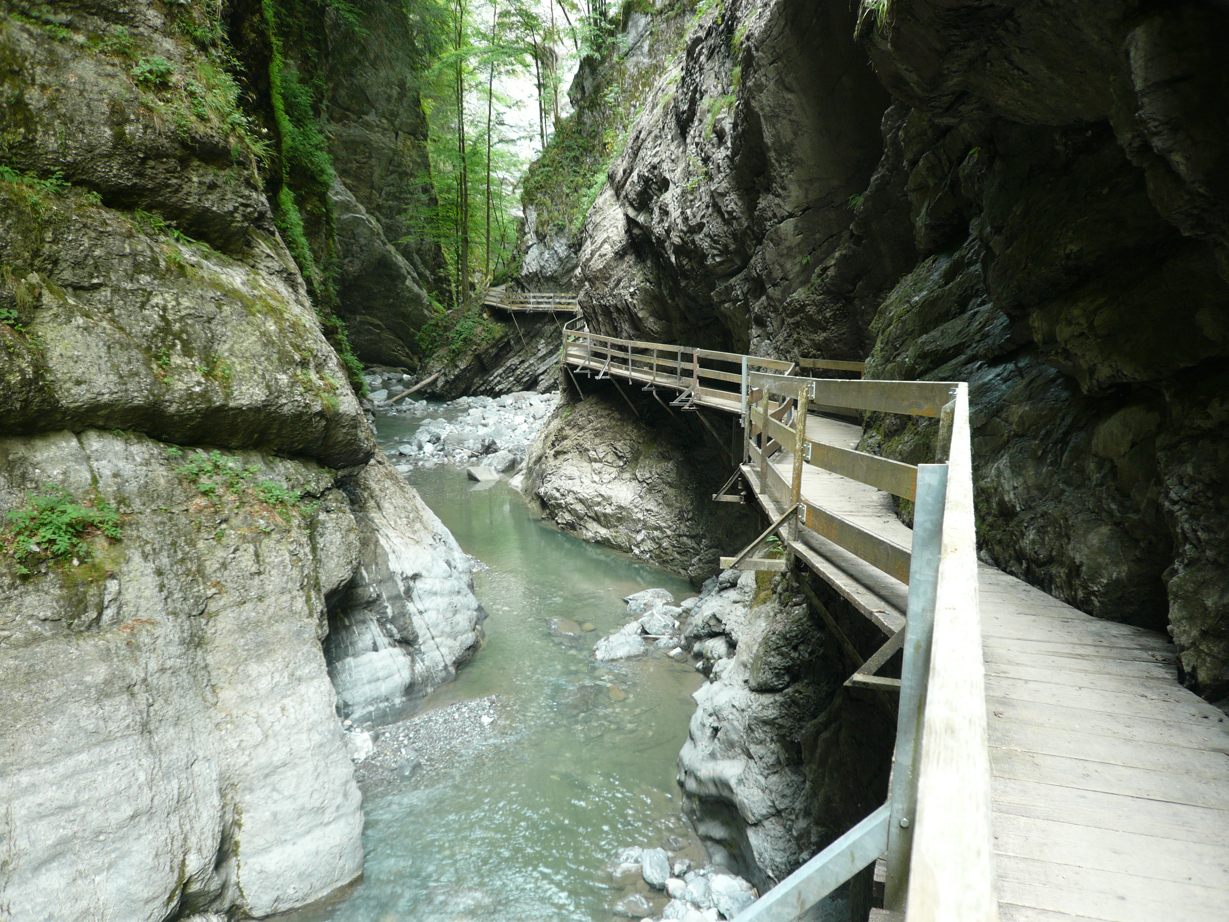 Alplochschlucht, canyon in Austria near Dornbirn